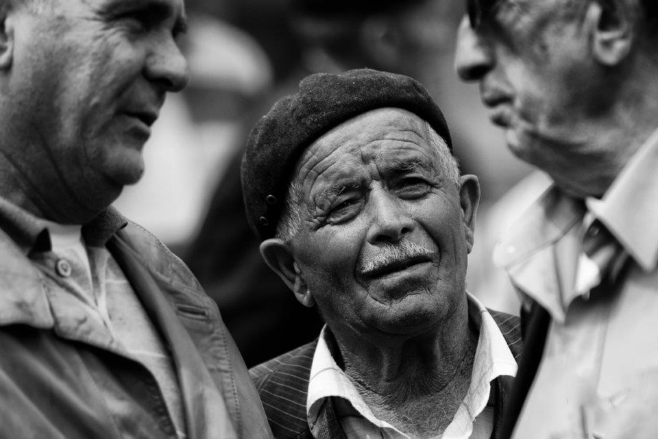 Seniors chatting in the streets of Prishtina